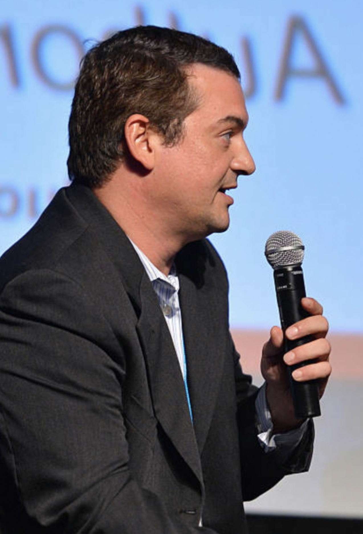 September 20, 2012, The 3D Summit, Hollywood California.